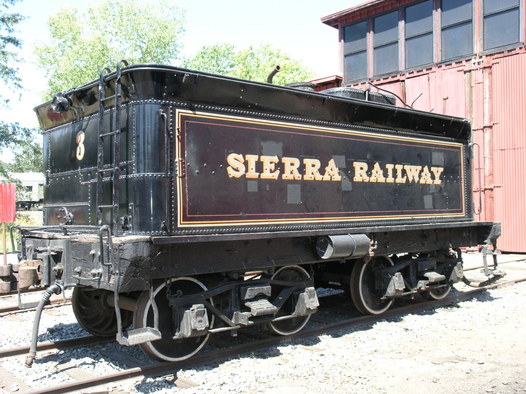 Jamestown, California -- Train Town Sierra Railway #3 Tender